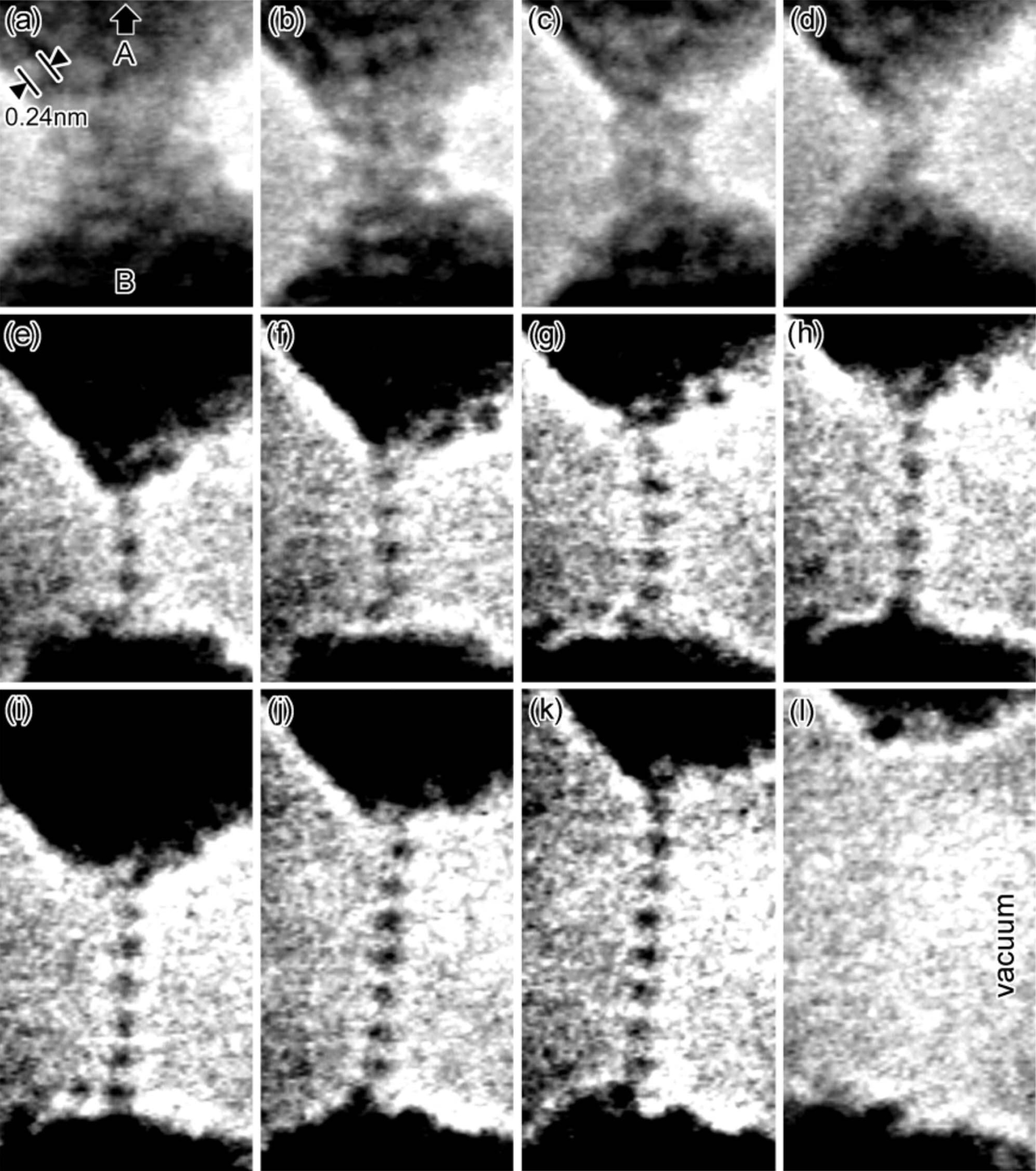 Time variation of the Au ASW formation process observed using the in situ HRTEM method